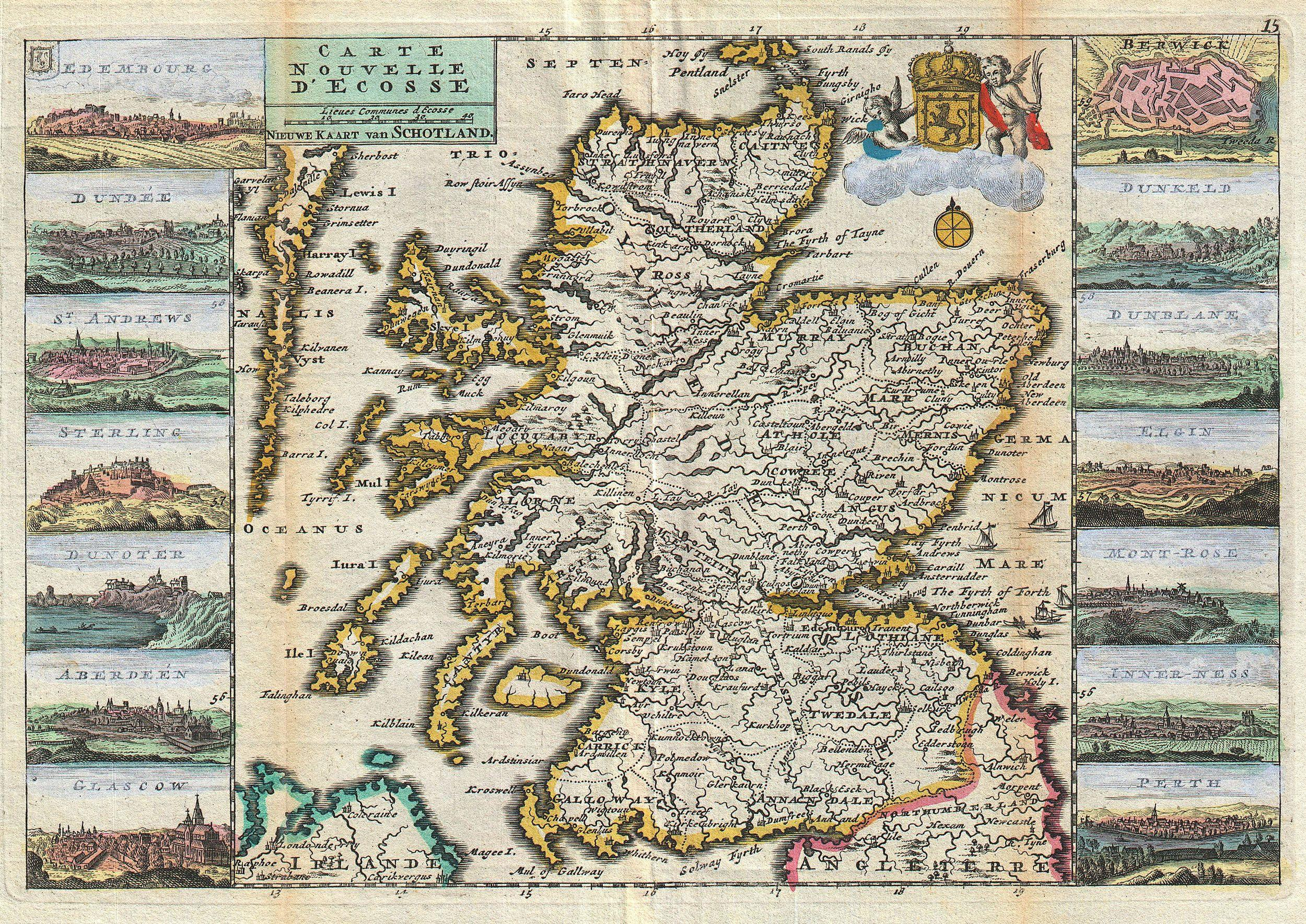 A stunning map of Scotland first drawn by Daniel de la Feuille in 1706. Depicts the entirety of Scotland surrounded by views of fourteen Scottish cities, including Edembourg (Edinburgh), Dundee, St. Andrews, Sterling, Dunoter, Aberdeen, Glascow (Glasgow), Berwick, Dunkeld, Dunblane, Elgin, Mont-Rose, Inner-ness and Perth. A playful cartouche in the upper right quadrant depicts the armorial crest of Scotland surmounted by a crown and flanked by cherubs. Four tiny sailing ships and two rowboats are drawn plying the waters near Edinburgh. Title in upper left quadrant in both French and Dutch. This is Paul de la Feuille’s 1747 reissue of his father Daniel’s 1706 map. Prepared for issue as plate no. 17 in J. Ratelband’s 1747 Geographisch-Toneel .